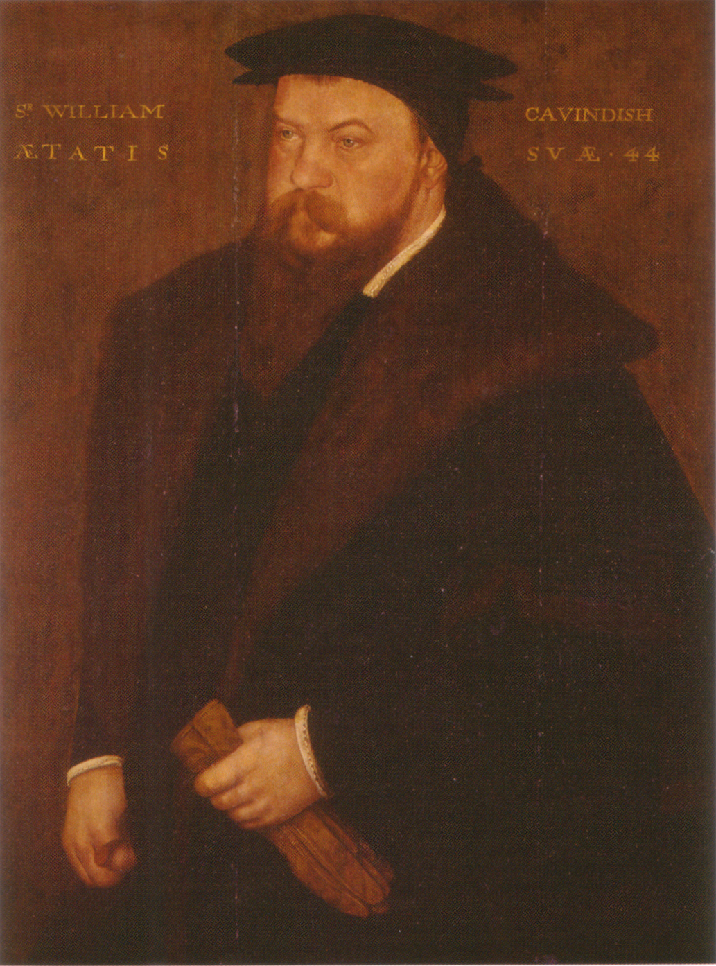 Sir William Cavendish (1505 – 25 October 1557), English courtier, second husband of Bess of Hardwick and ancestor of the Dukes of Devonshire.